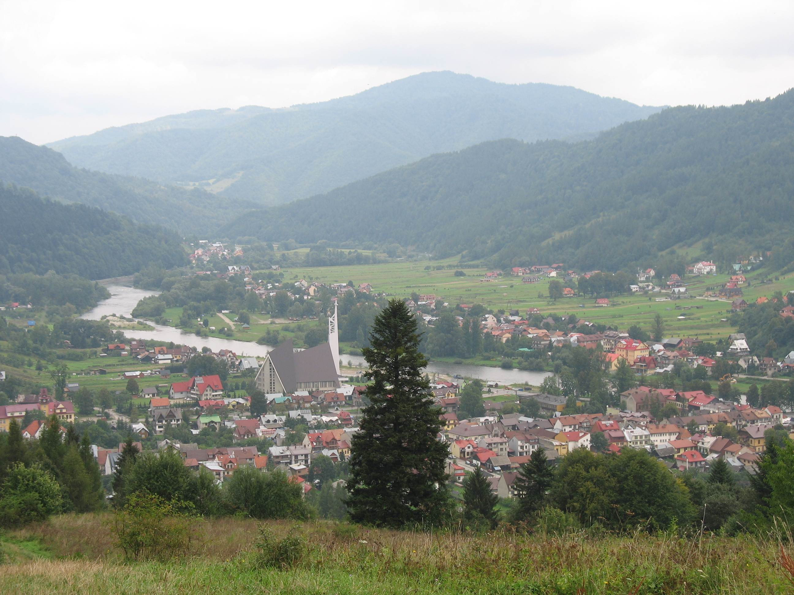 View of the village Krościenko nad Dunajcem in Pieniny